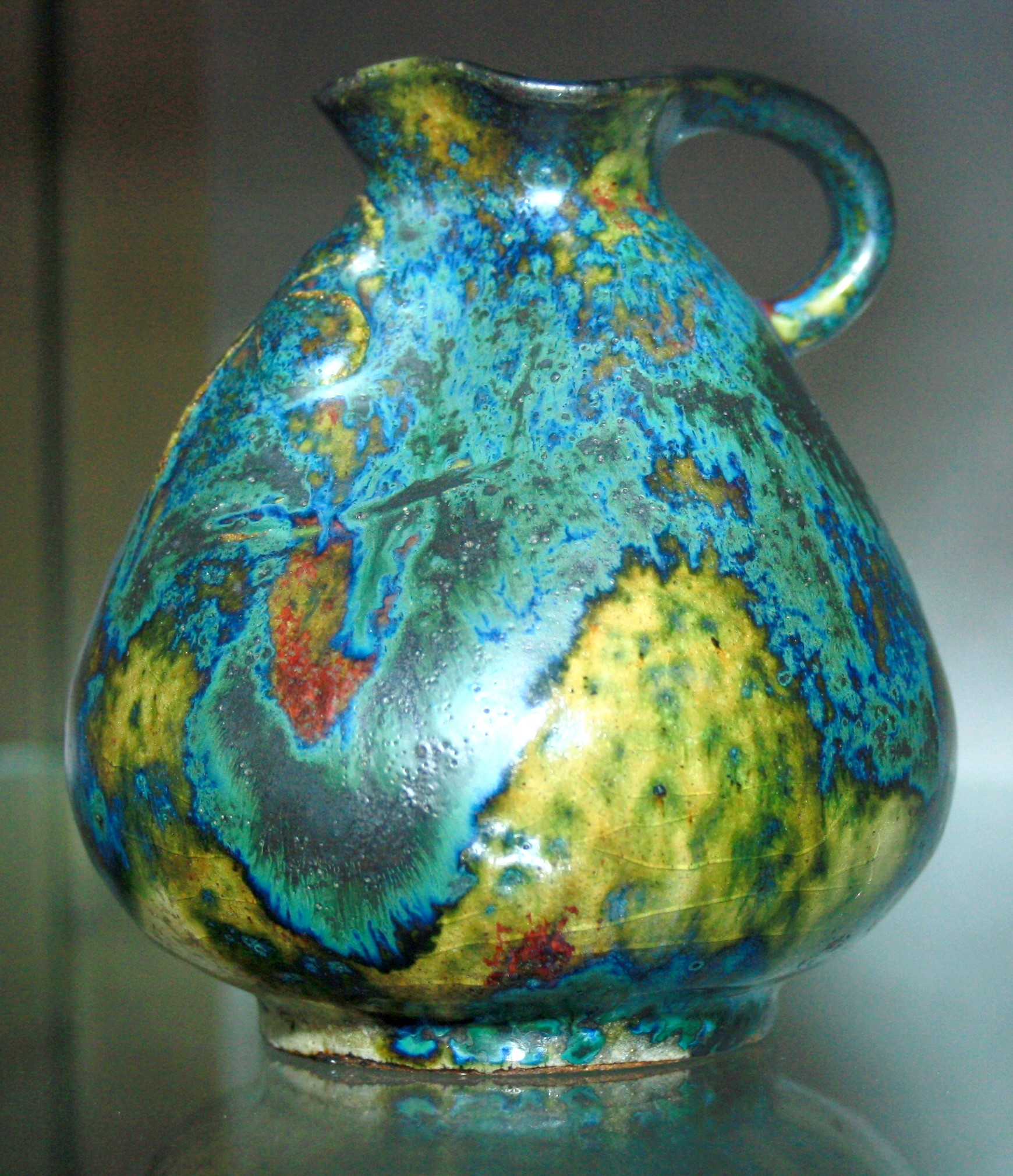 Ceramic by Pierre-Adrien_Dalpayrat in musée Dalpayrat, Villa Saint Cyr in Bourg-la-Reine, France